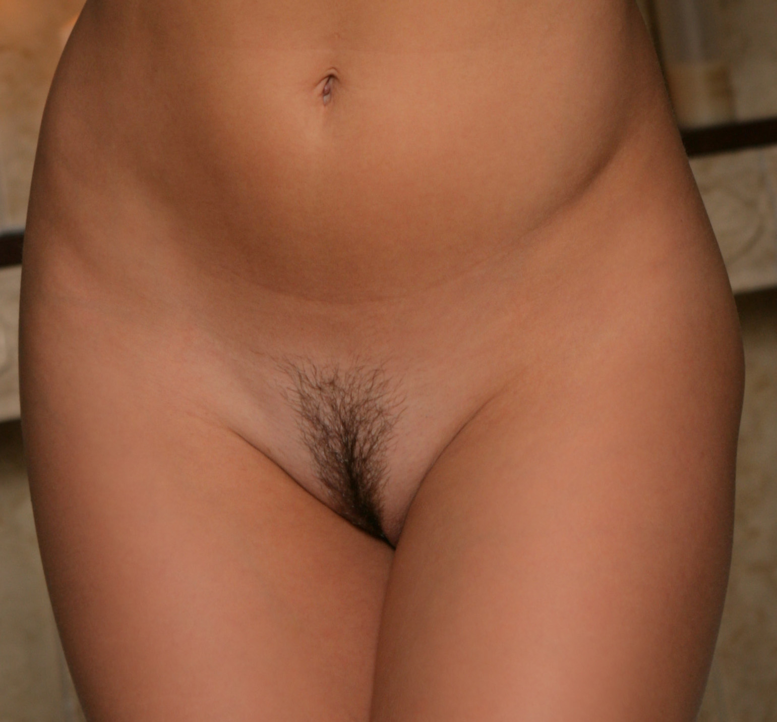 woman with pubic hair: bikini line